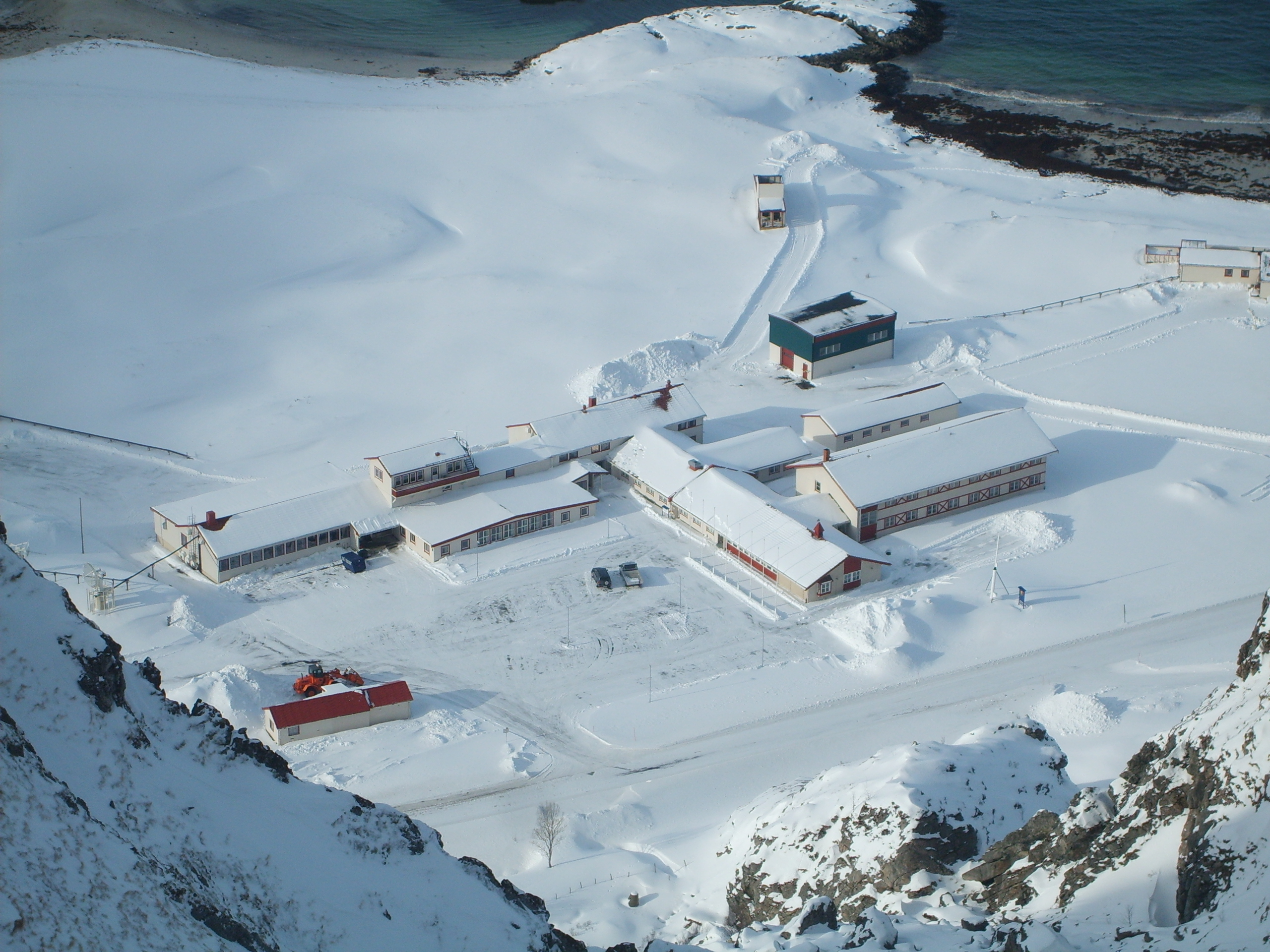 View to Andøy Rocket Range in winter